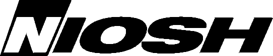 Logo of the NIOSH, a US government agency that is part of the Centers for Disease Control (CDC).